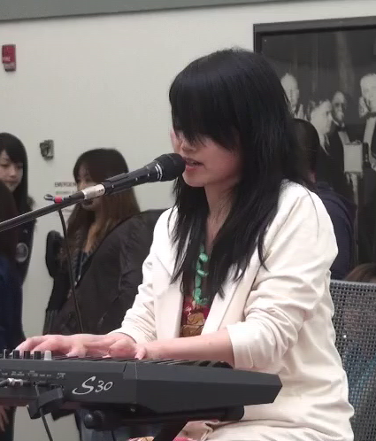 Jenny Choi playing at the Asian Heritage celebration in New York at LaGuardia Community College.